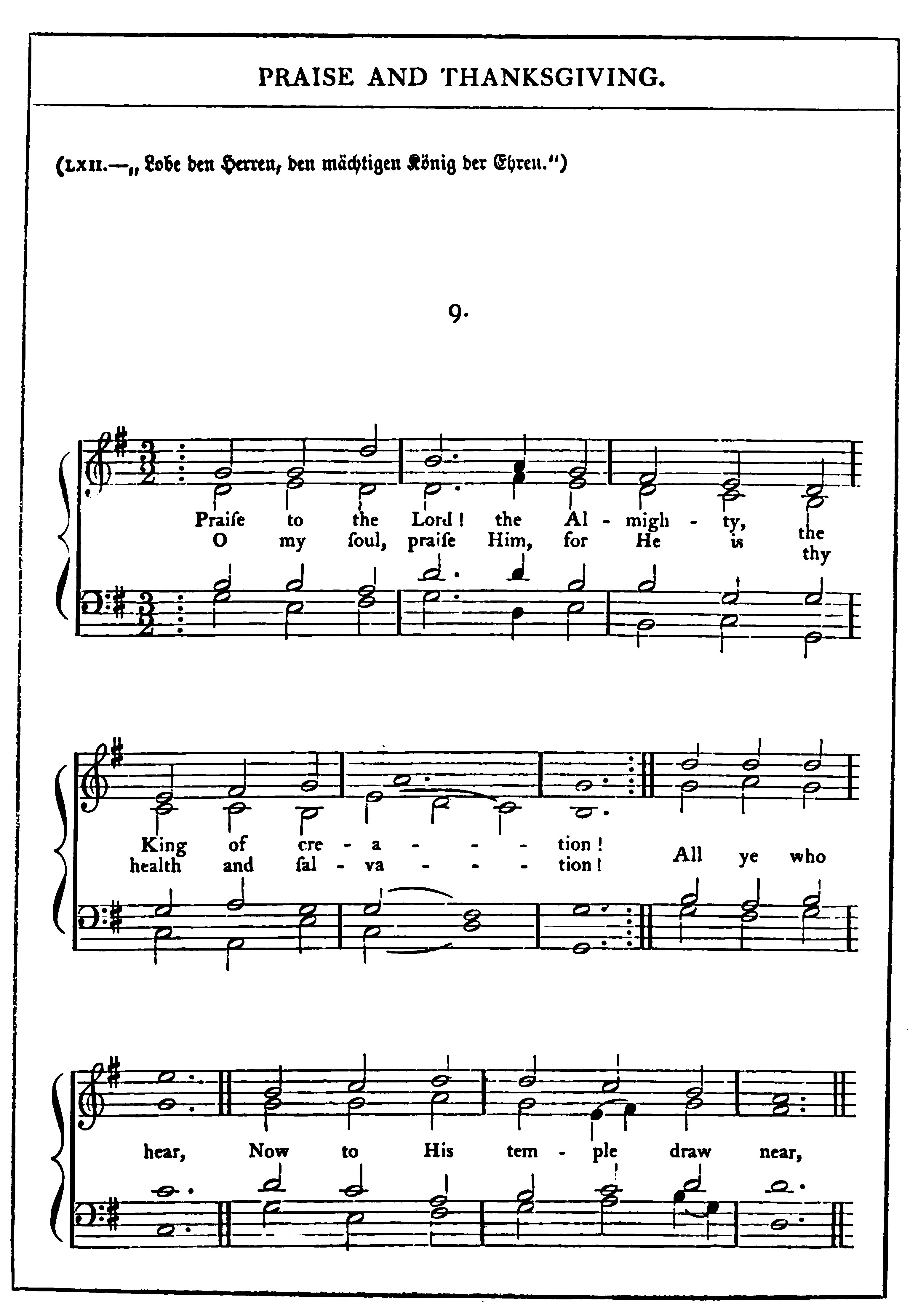 First page of hymn by Joachim Neander and Catherine Winkworth. Source The chorale book for England published in 1865.